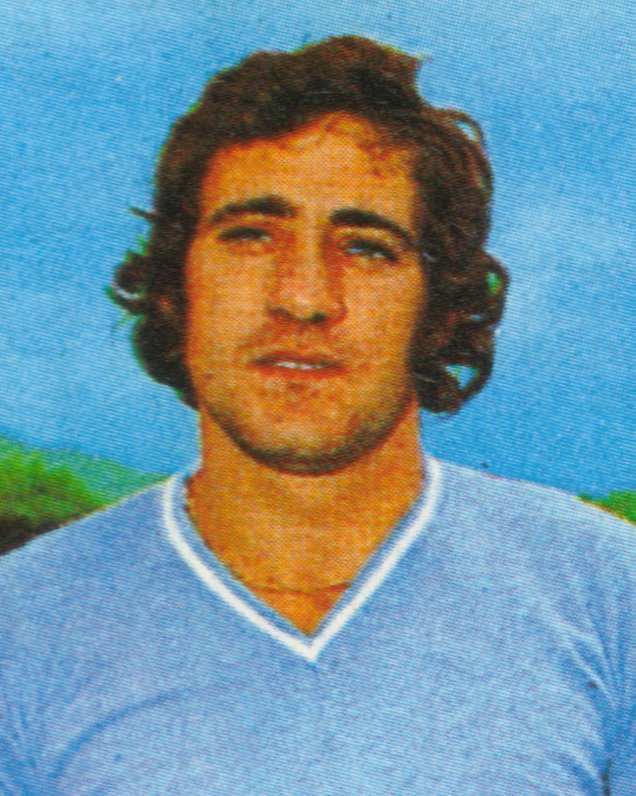 Italian footballer Giorgio Chinaglia